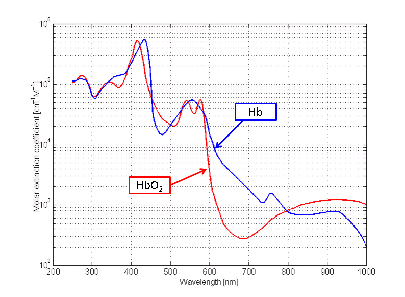 The molar extinction coefficients of HbO2 and Hb